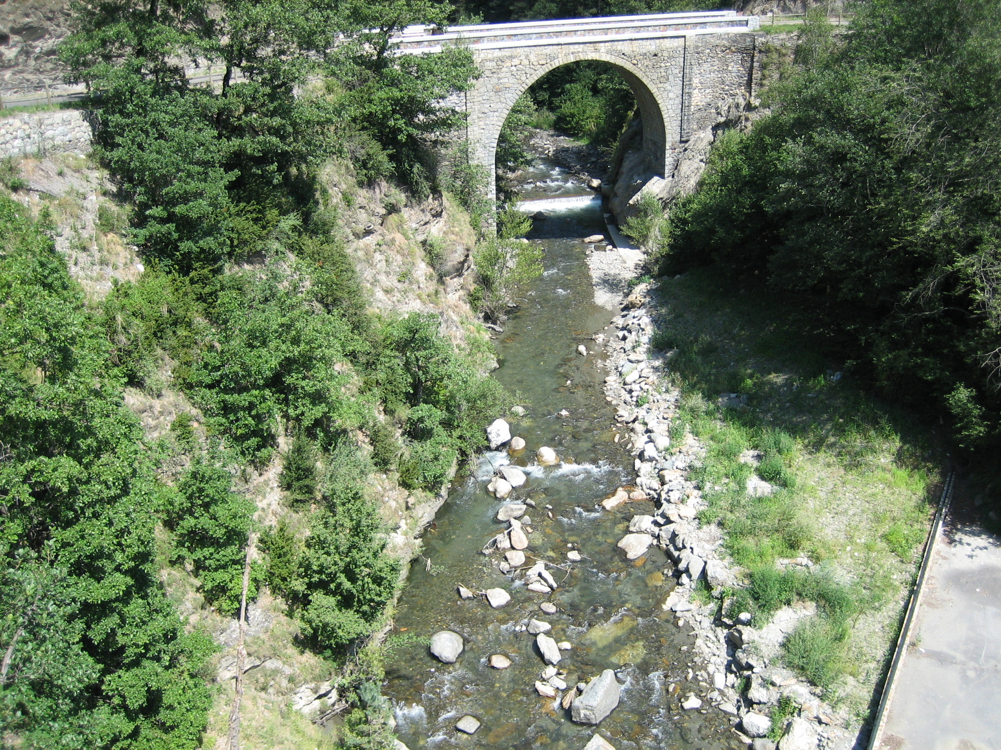 Valira del Nord River in Anyós, La Massana, Andorra